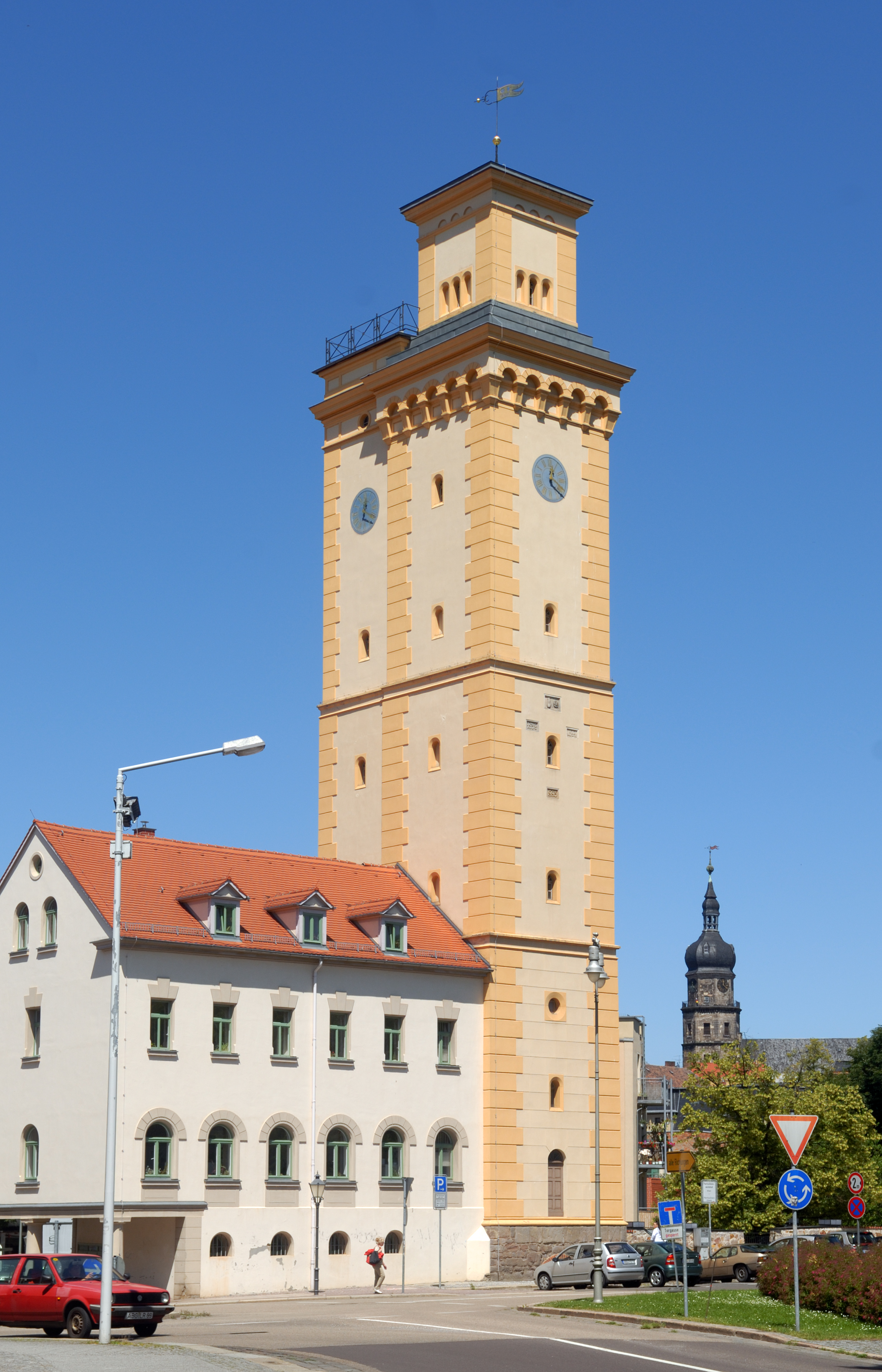 This image shows the art tower ("Kunstturm") in Altenburg, Thuringia, Germany.